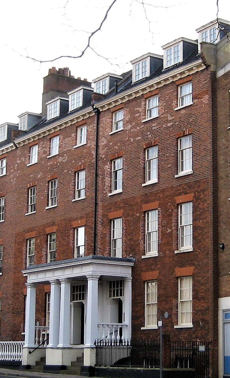 29, Surrey Street, Norwich (right hand side house)